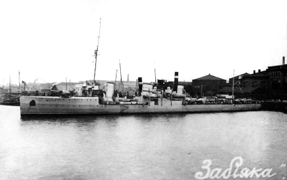 The Imperial Russian squadron torpedo boat (destroyer) «Zabiyaka» in tree clour camouflage.